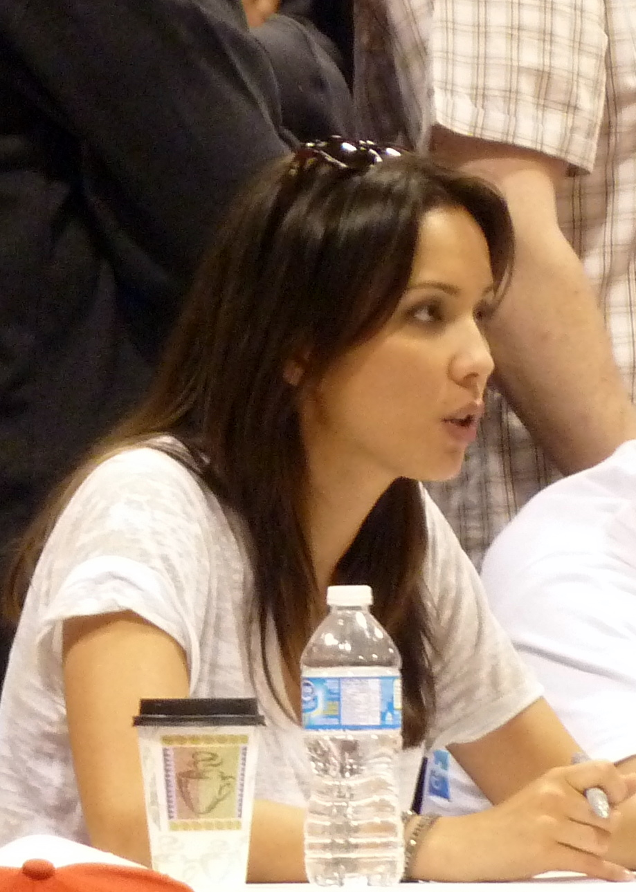 Lexa Doig at Fan Expo 2011 in Toronto